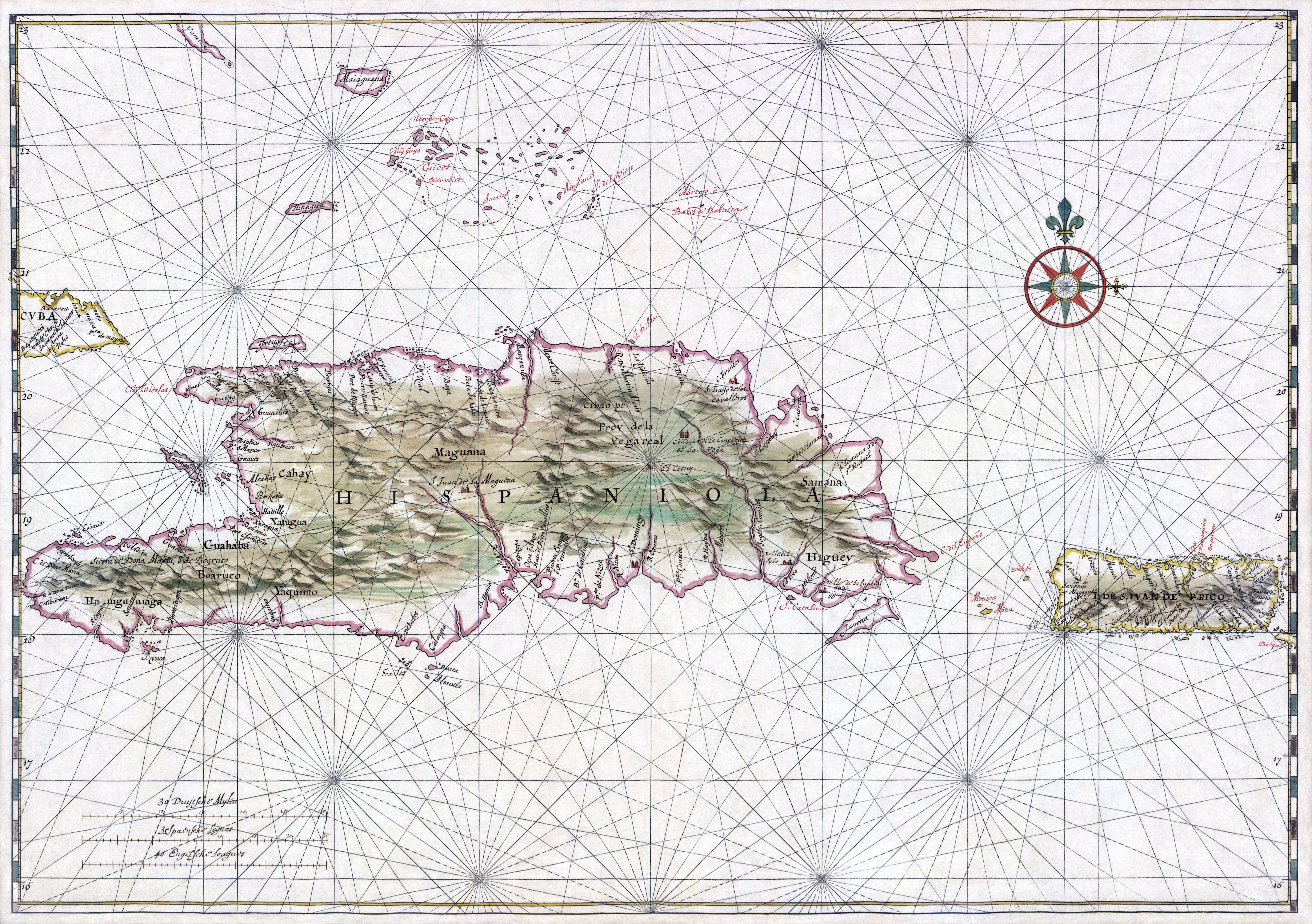 Nautical chart of Hispaniola and Puerto Rico. Ink and watercolor with pictorial relief.